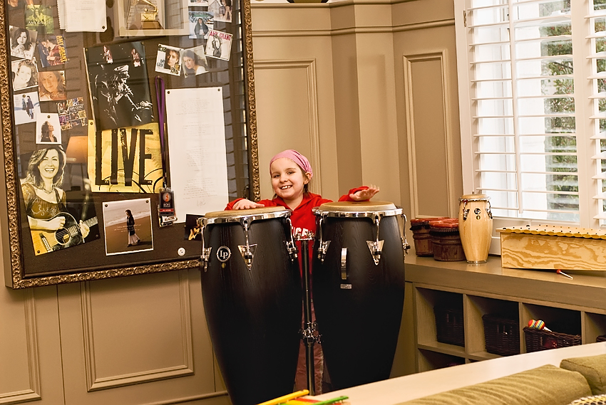 A child playing congas in the Amy Grant Music Room at St. Jude Children's Research Hospital in Memphis, Tennessee, United States